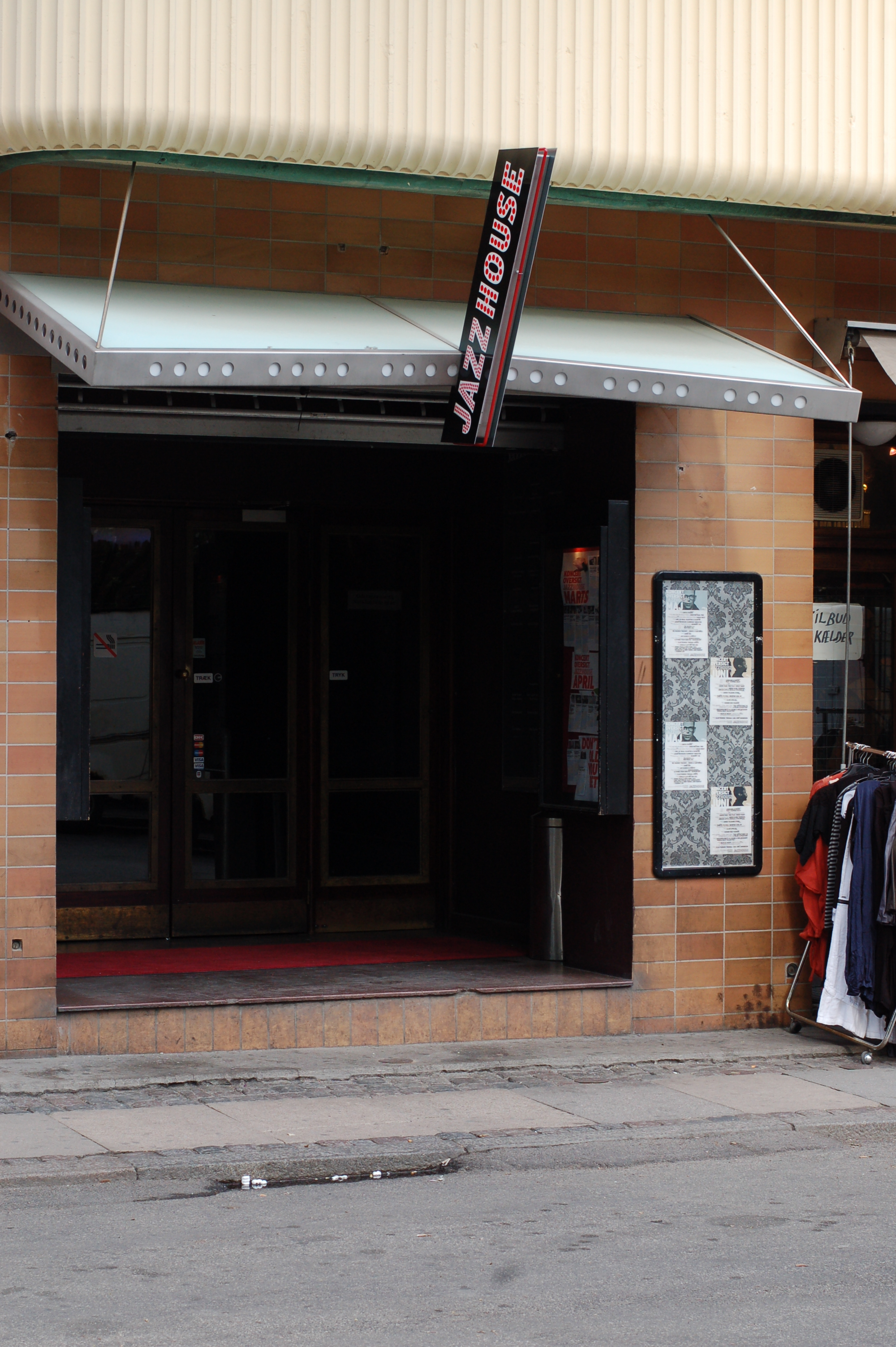 Entrance of the jazz club Copenhagen Jazzhouse. Photo: Thomas Bjørndah